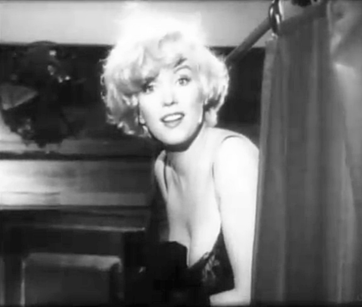 Cropped screenshot of Marilyn Monroe from the trailer for the film Some Like It Hot